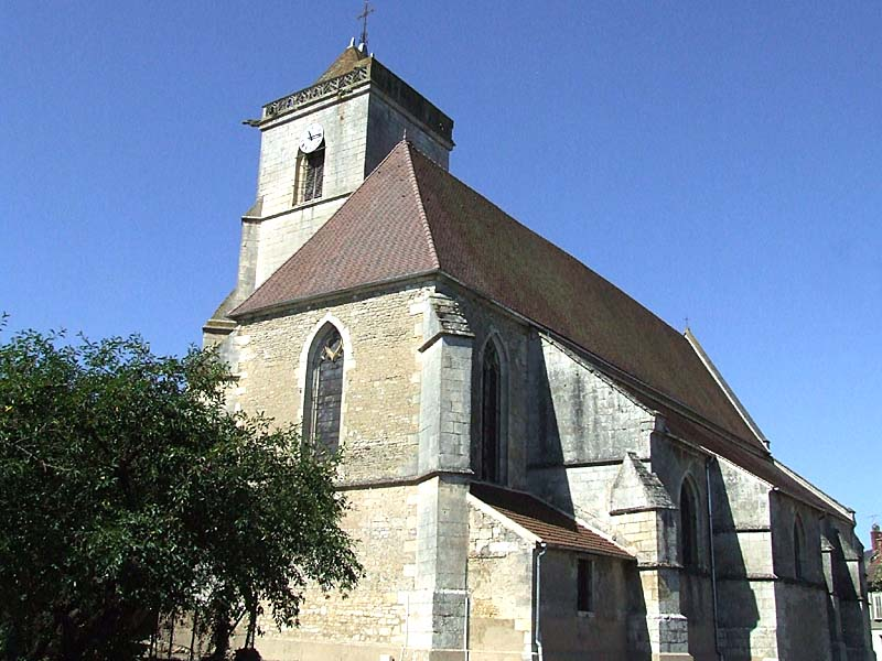 St-Pierre-aux-Liens church of Étais-la-Sauvin village